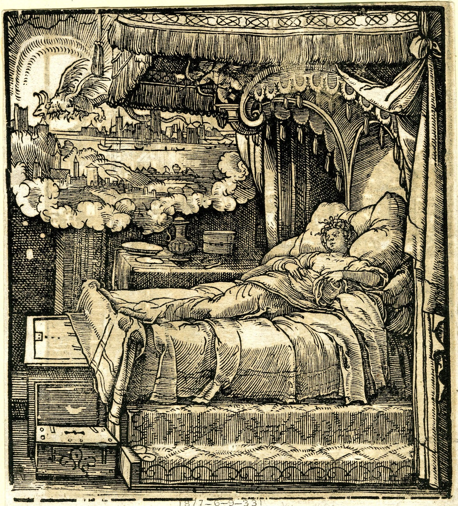 The mother lying asleep on a bed, on a wall at the back set in clouds an illustration of her dream with a monster spitting fire onto a city set on the shore of a lake or sea. Designed for Marinus Barletius, 'Des Allerstreytparsten Fürsten und Herren Georgen... Skanderbeg Ritterliche Thaten', Augsburg: Steiner, 1533. Taken here from Vincenz Steinmeyer, 'Newe künstliche ... Figuren', Frankfurt 1620.